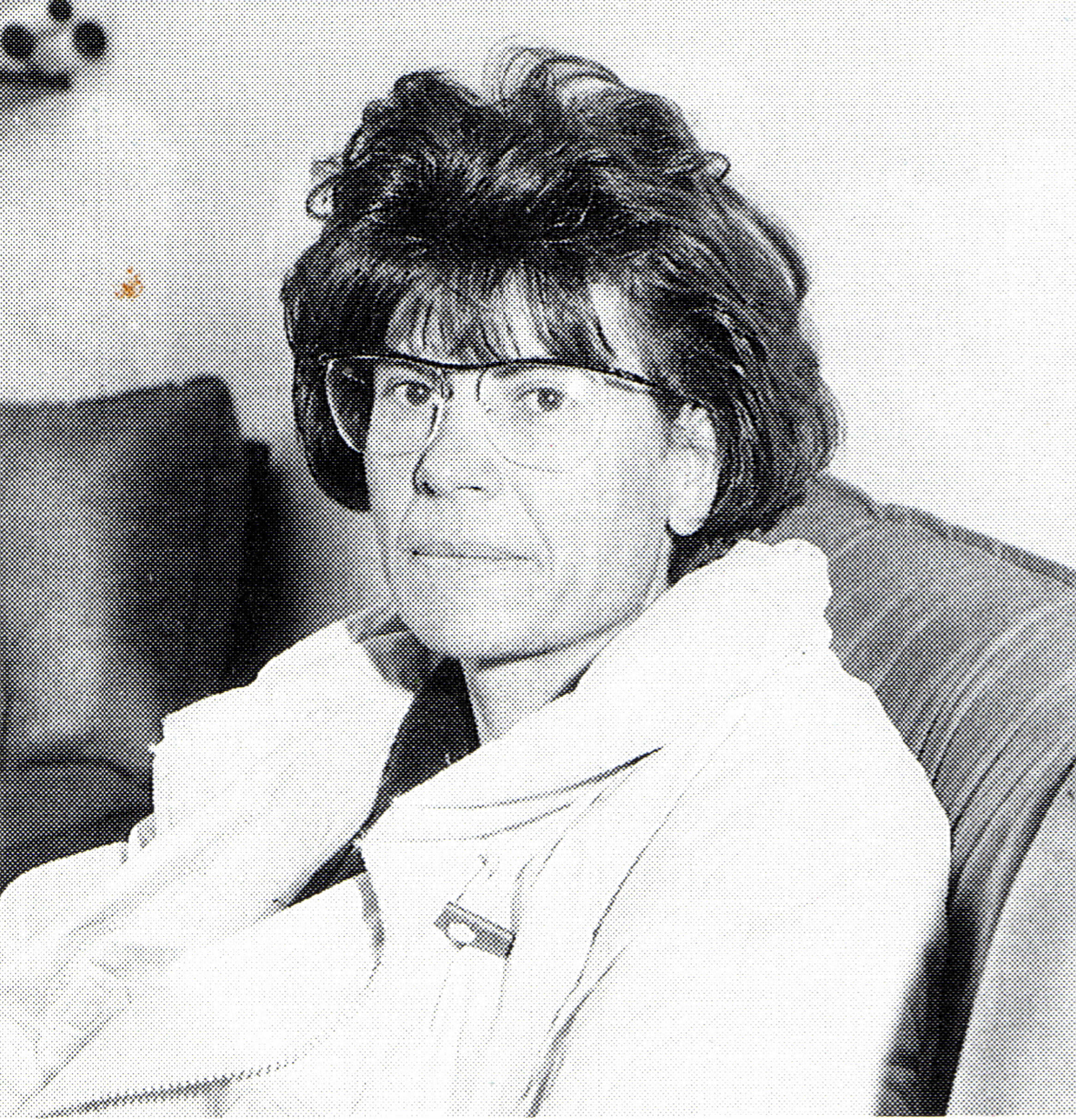 Artist, Anna Forte